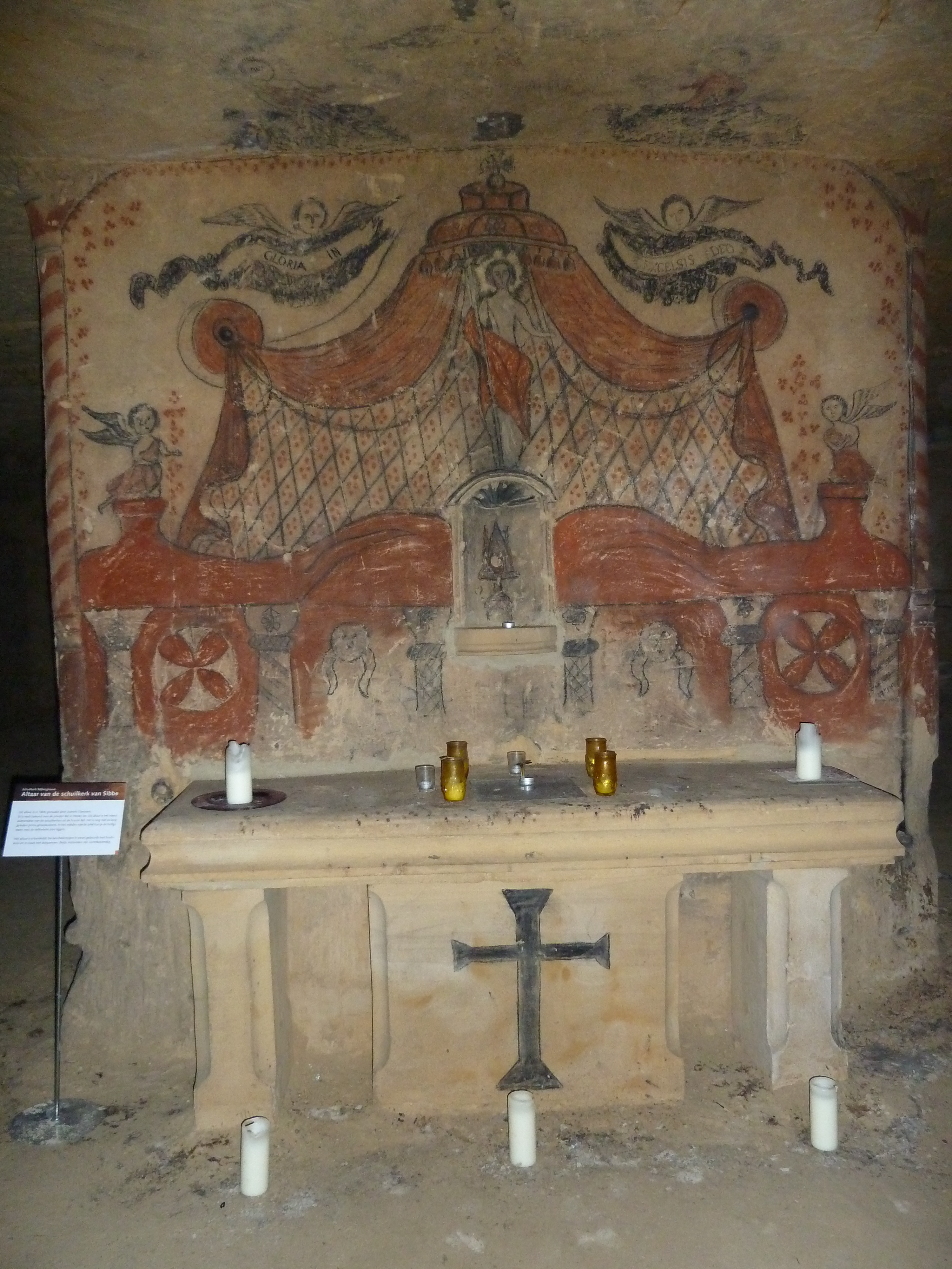 Chapel Sibbergroeve, Sibbe, Limburg, the Netherlands